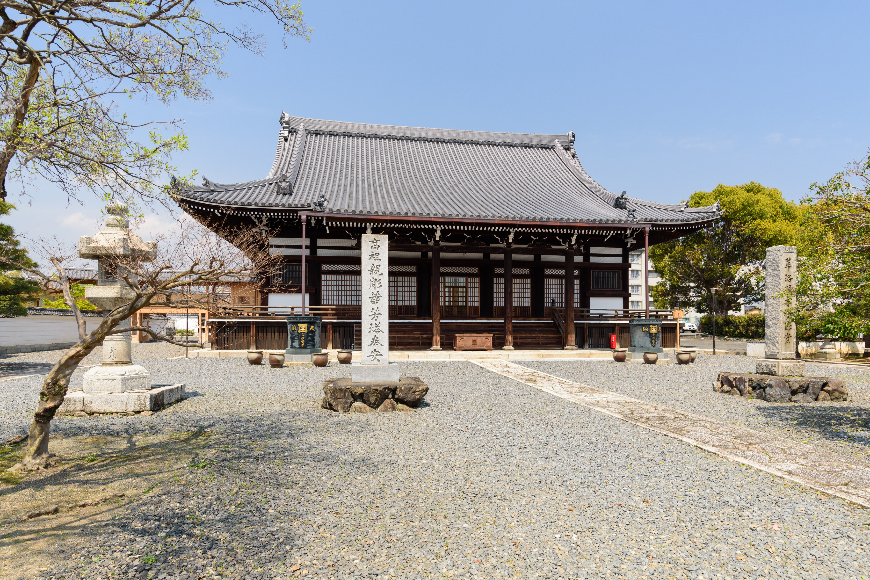 Myokakuji Temple, Kamigyo-ku, Kyoto, Japan